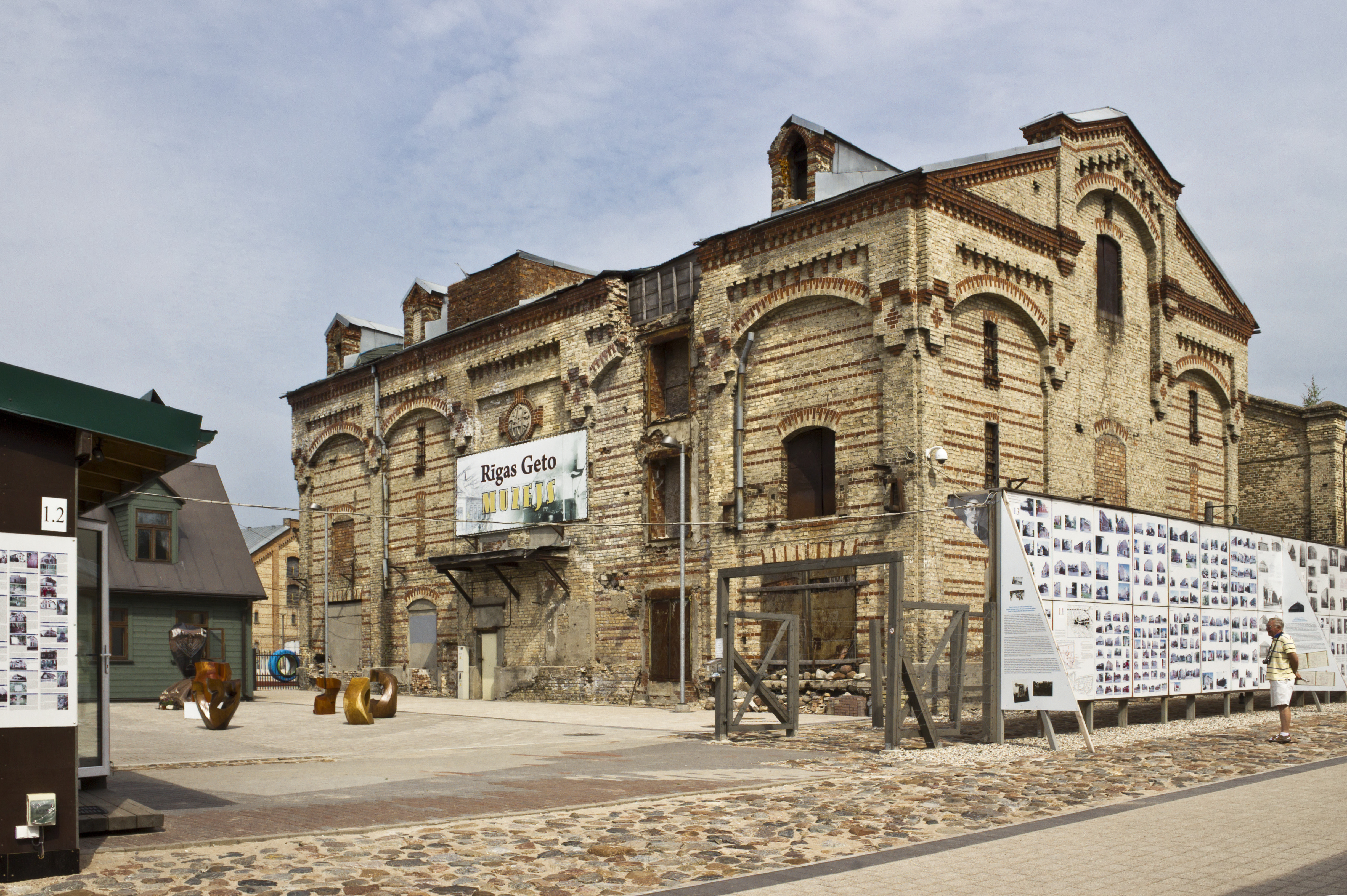 Museum of Riga Ghetto